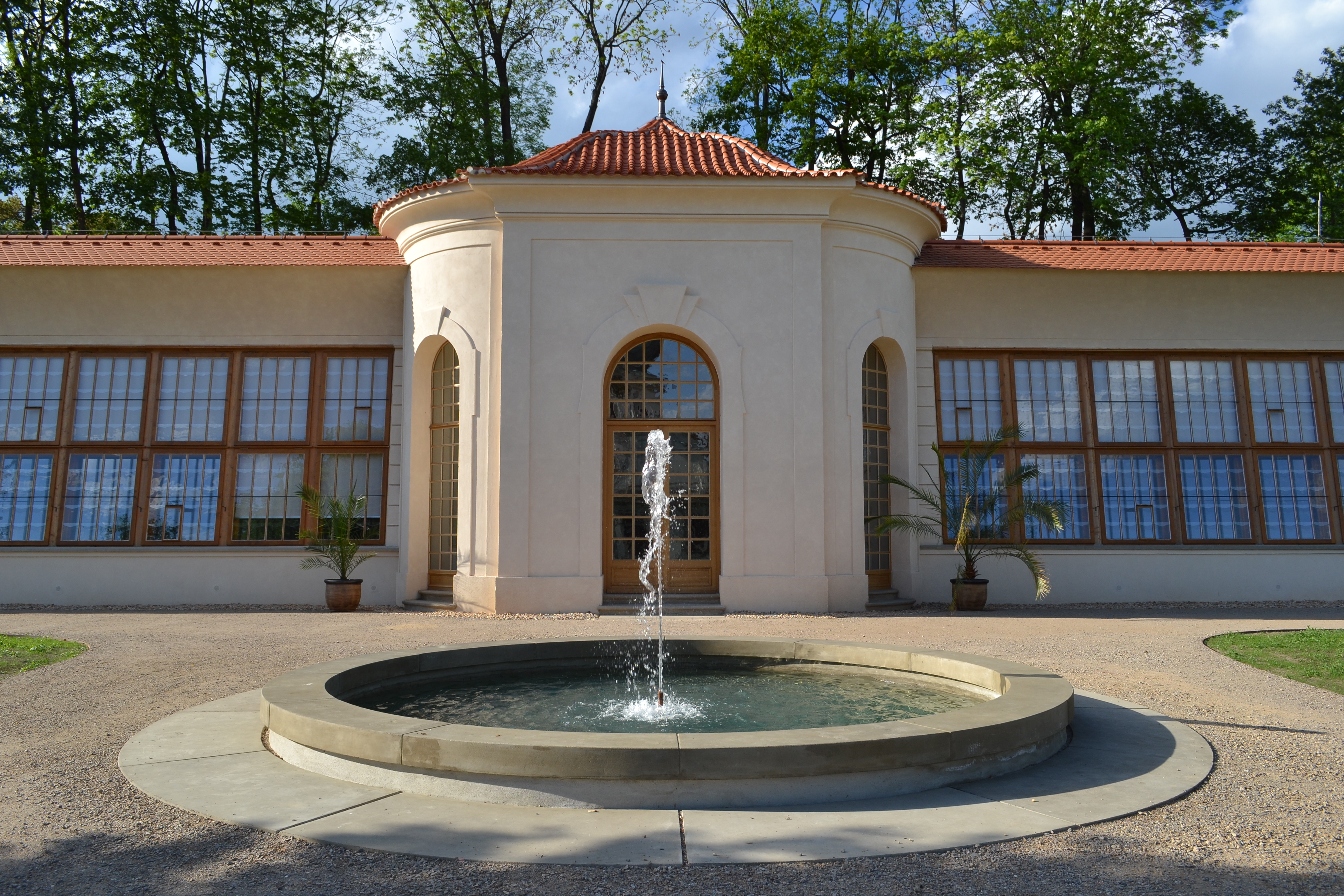 Renewed orangery in the gardens of Břevnov monastery, Prague, Czech Republic.